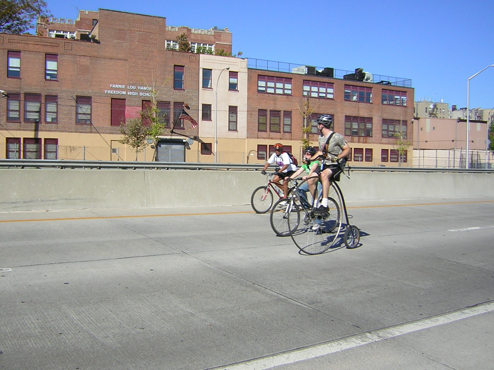 Penny-farthing bicycle and two modern low safety bicycles southbound on the Sheridan Expressway which was closed to motor traffic for the 2007 "Tour de Bronx" mass bicycle ride of Transportation Alternatives.